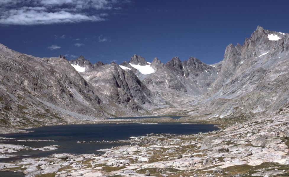 Mountains in the Wind River Range, Wyoming Green Lakes region of the Bridger Wilderness, Briger-Teton National Forest.